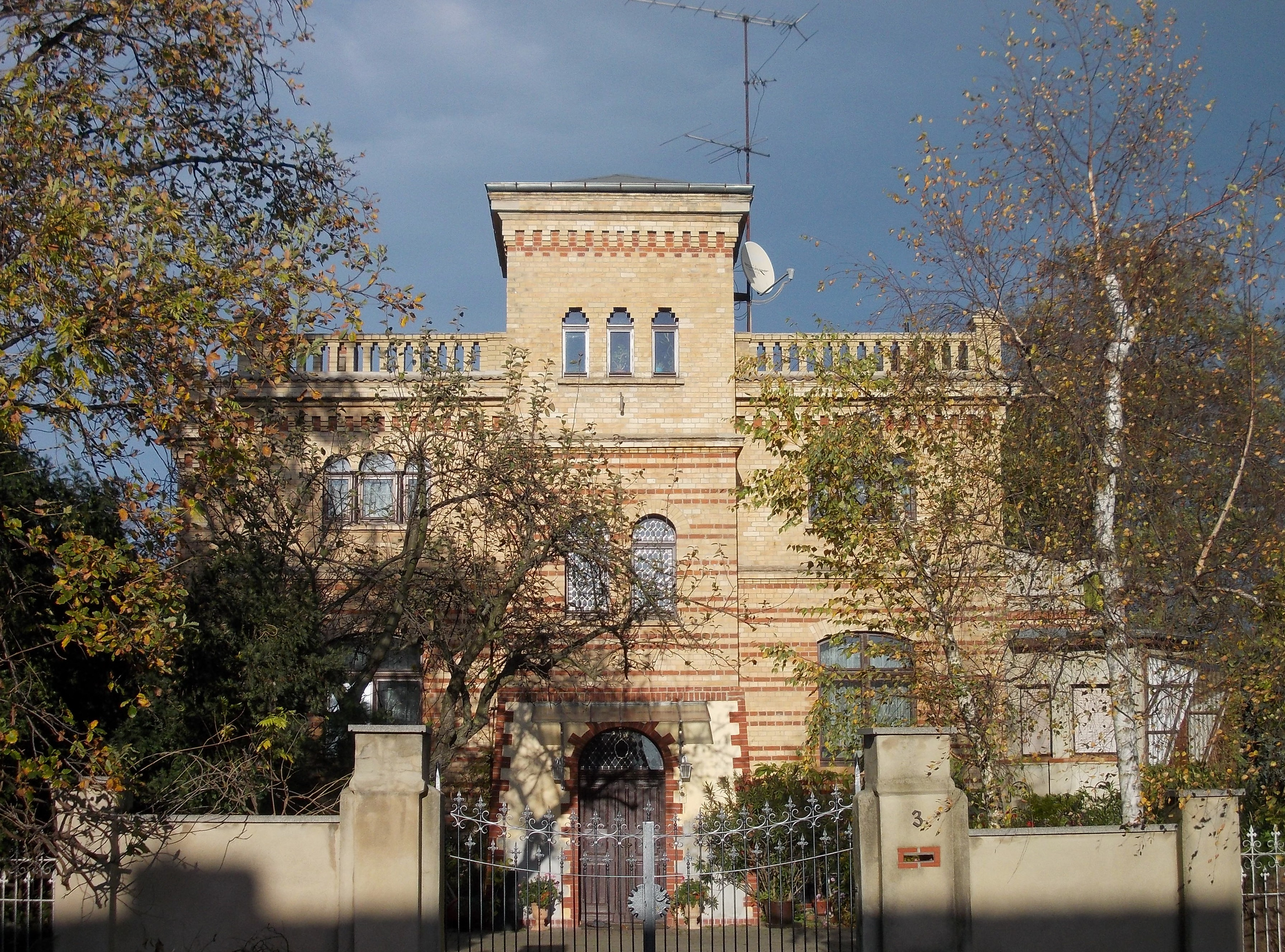 No. 3, Leipziger Strasse in Gröbers (Kabelsketal, district: Saalekreis, Saxony-Anhalt)